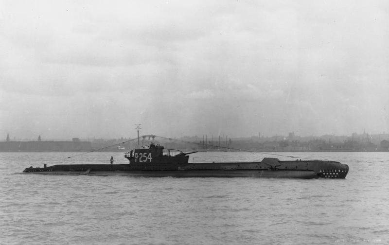 British S class submarine HMSM SELENE underway on the Mersey.